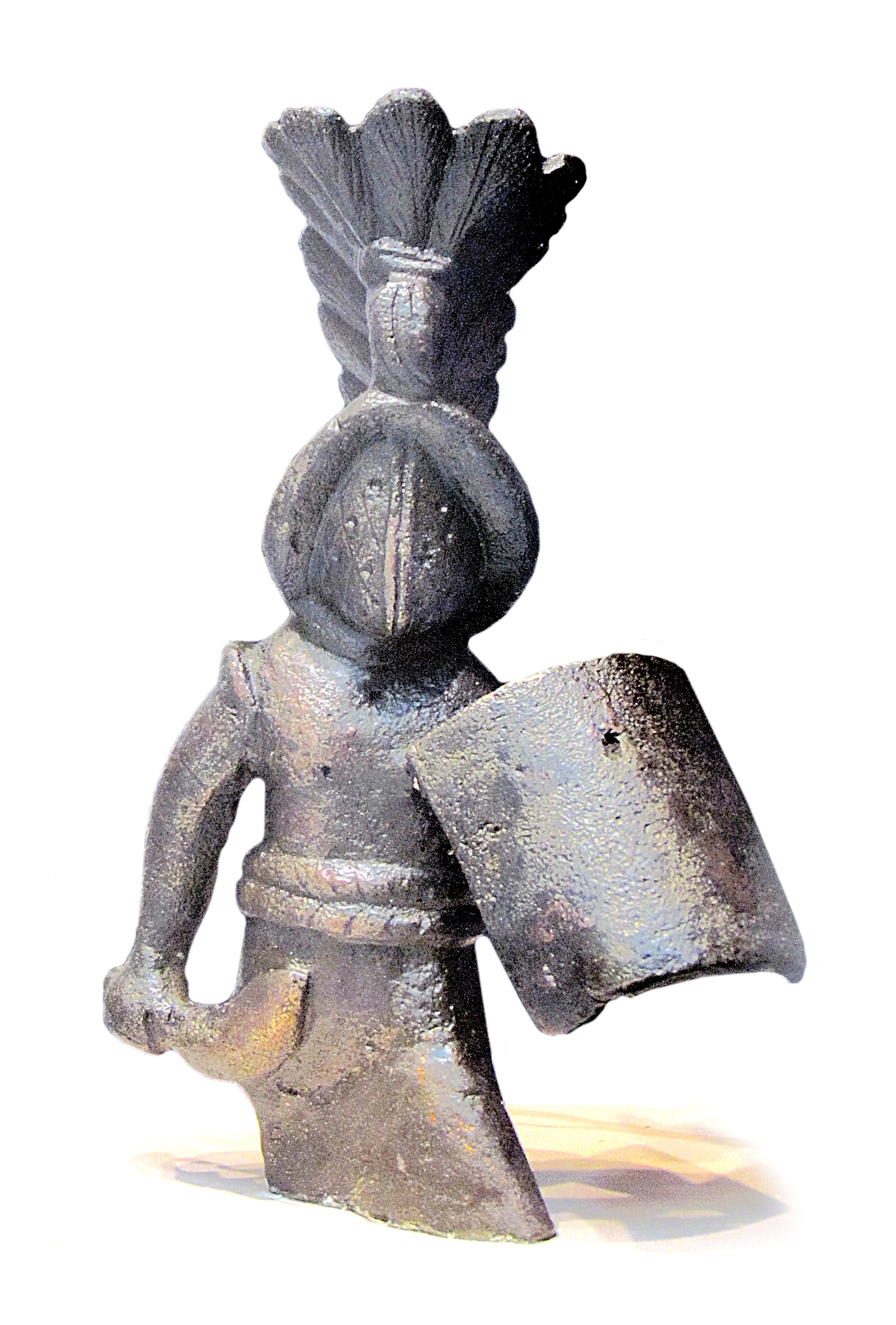 Statuette of Gladiator, Dubljani, Serbia, II c